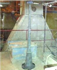 precipitator and acoustic cleaners, images donated by Primasonics